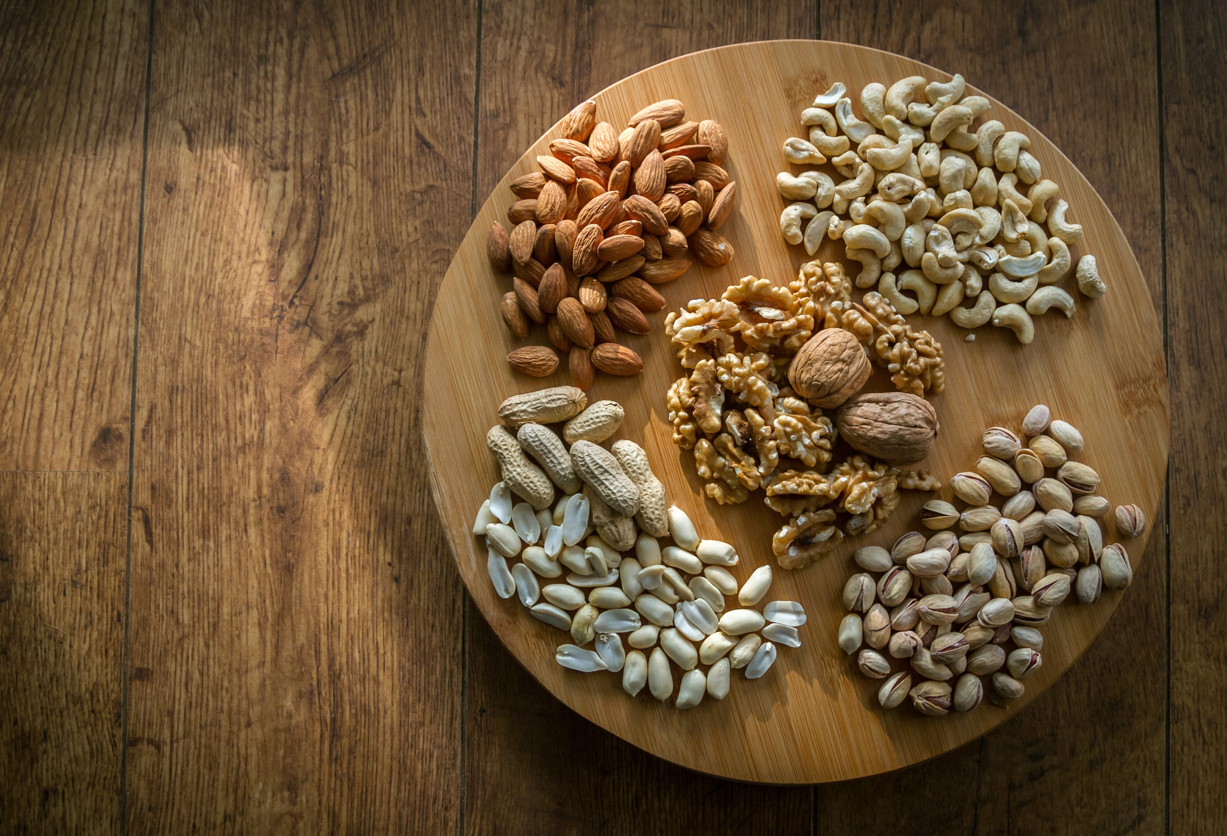 The free high-resolution photo of food, produce, crop, plate, brown, shell, cereal, nuts, eating, wooden, tasty, snacks, peanuts, vegetarian food, mixed, selection, walnuts, pistachios, cashew, almonds, flowering plant, sunflower seed, grass family, nuts seeds